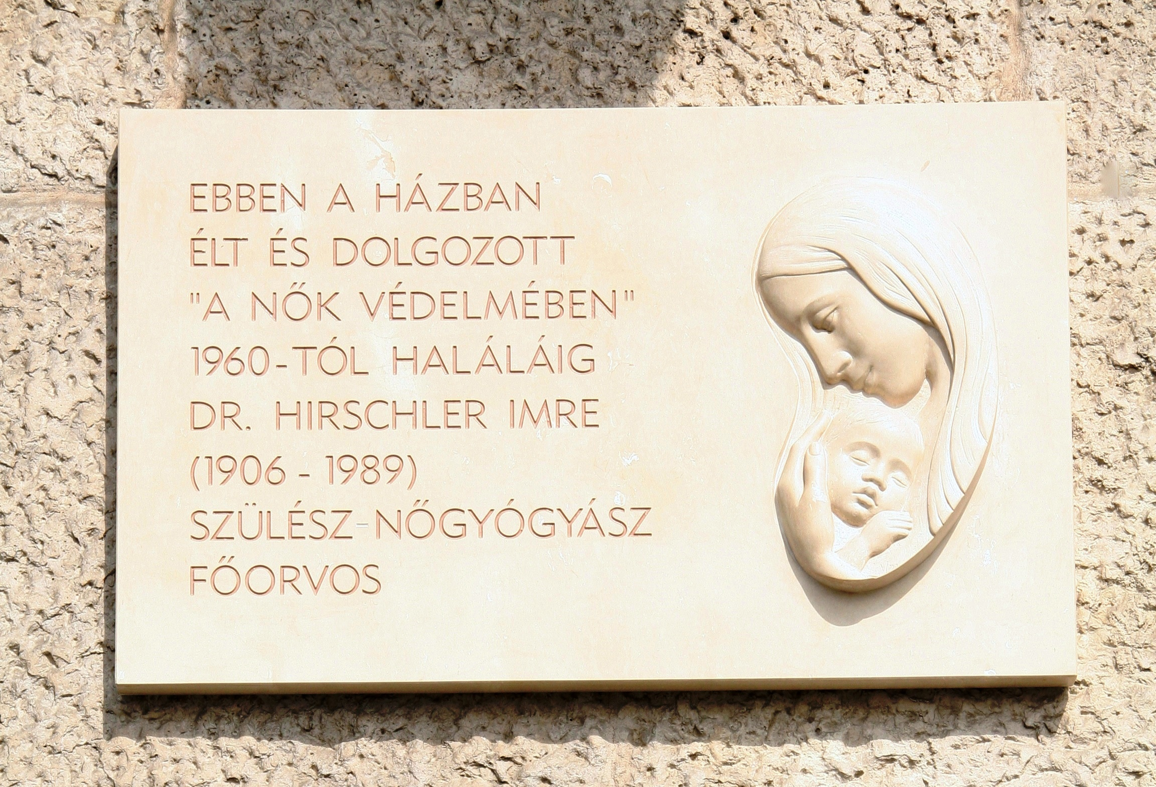 Memorial plaque erected by his family on the 25th anniversary of Dr. Imre Hirschler, gynecologist, obstatrician, on the facade of the building in downtown Budapest in which he lived and worked. Artwork: Zsófia Fáskerti.